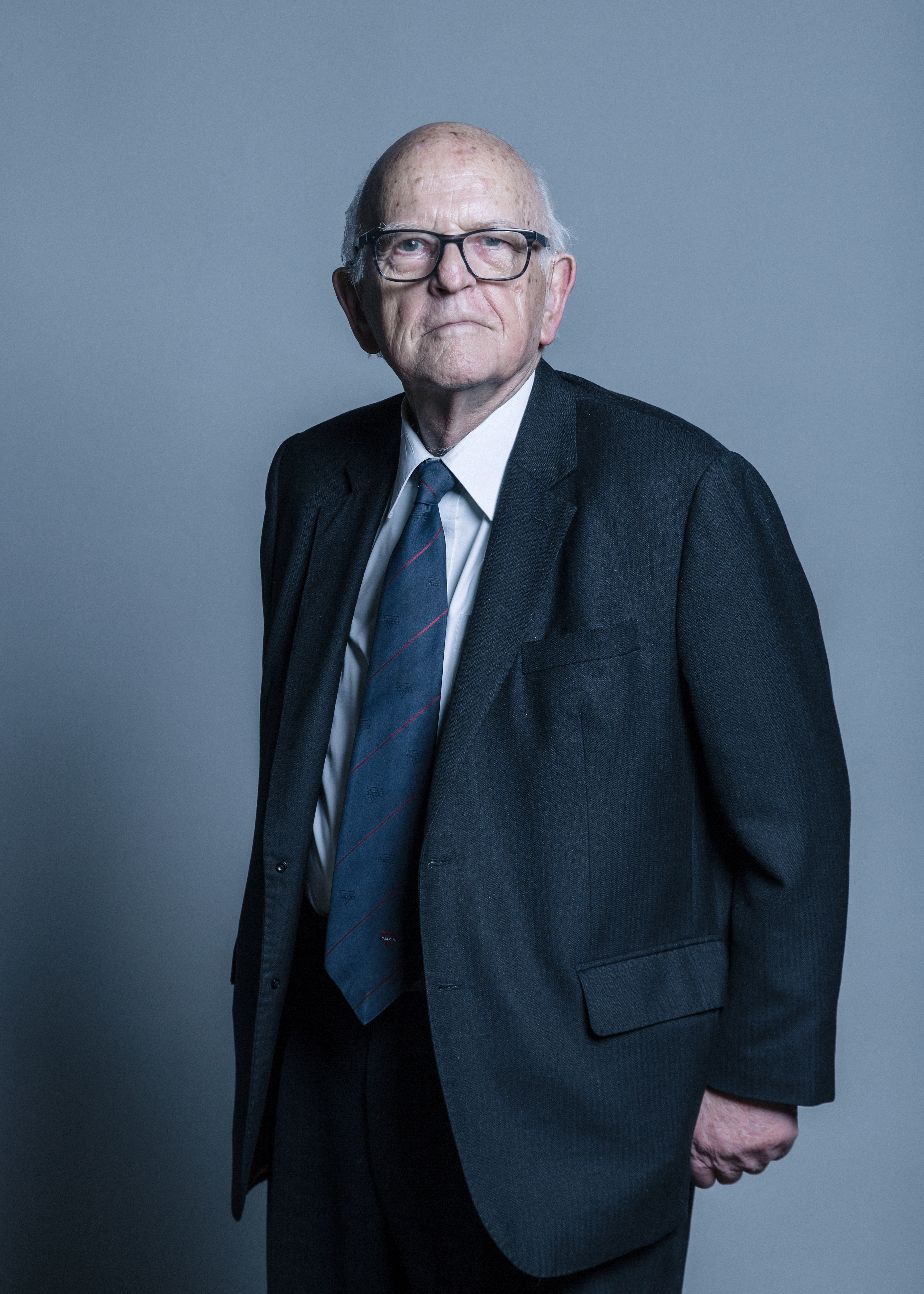 Official portrait of Lord Judd